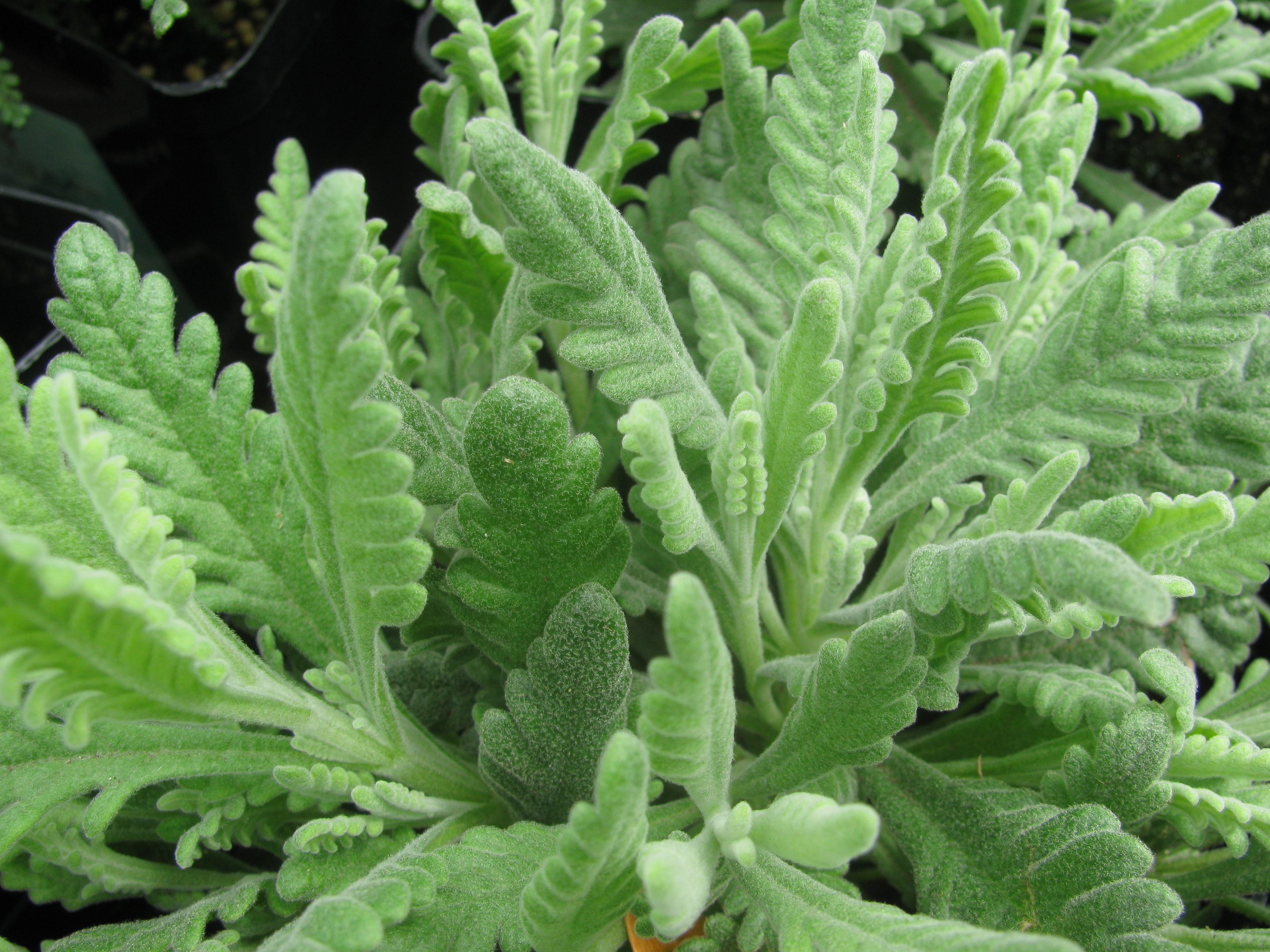 Lavandula dentata (French lavender) Leaves at Lowes Nursery Kahului, Maui, Hawaii. June 13, 2012 #120613-9681 Image Use Policy